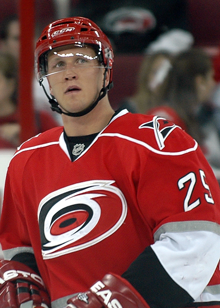 Joni Pitkanen of the Carolina Hurricanes skates during warmups of Game 6 of the Eastern Conference Semifinals on May 12, 2009.